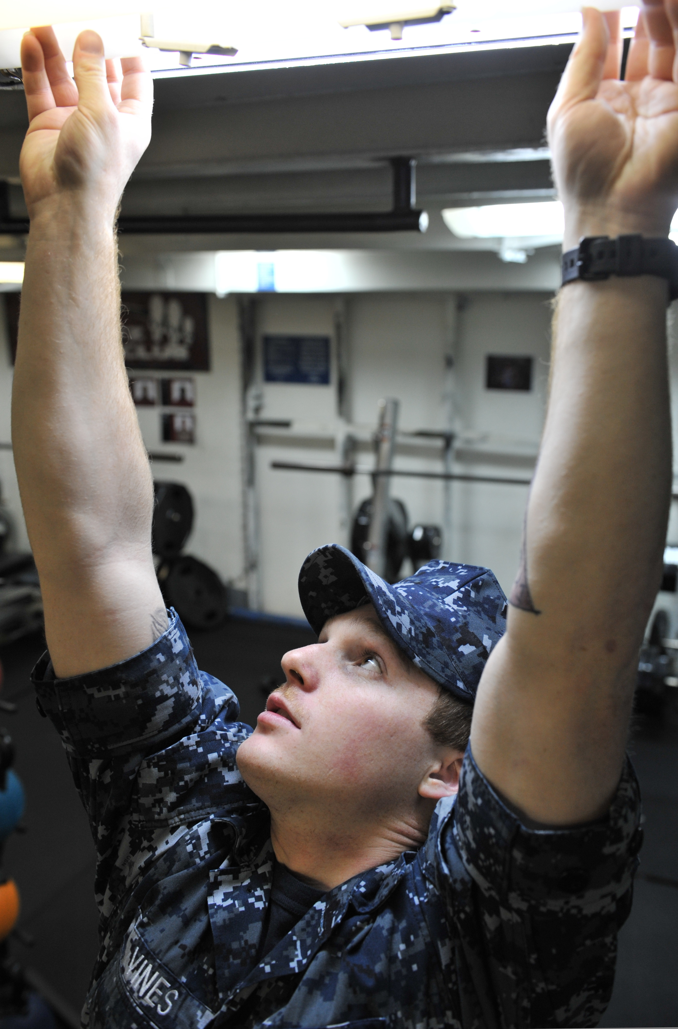 U.S. Navy Seaman Recruit Donald Vines changes a light bulb in the fitness center aboard the aircraft carrier USS Nimitz (CVN 68) Feb. 4, 2013, at Naval Station Everett, Wash.